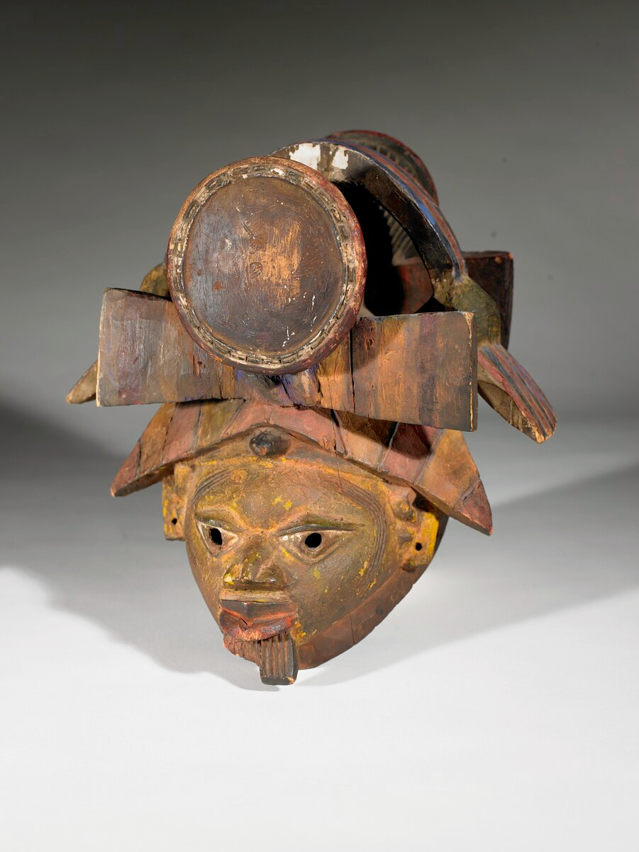 Mask/headdress composed of male face with beard and pierced eyes, topped by head-ware which includes sculpted drum resting on framework, held in place by sculpted fabric tie.